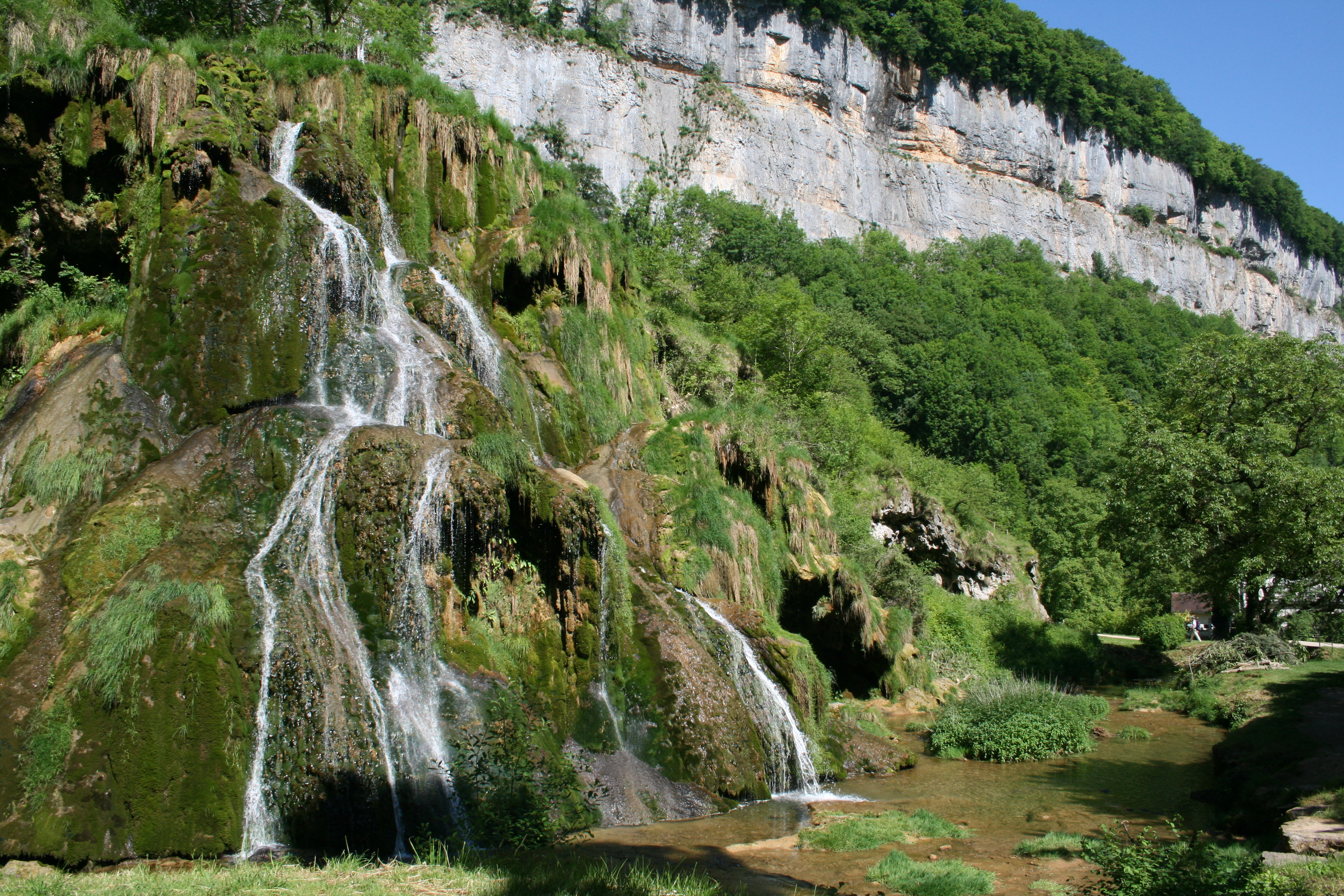 Baume-les-Messieurs (France), the Dard river resurgence forming the tuff waterfall at the bottom of the Reculée du cirque de Baume.